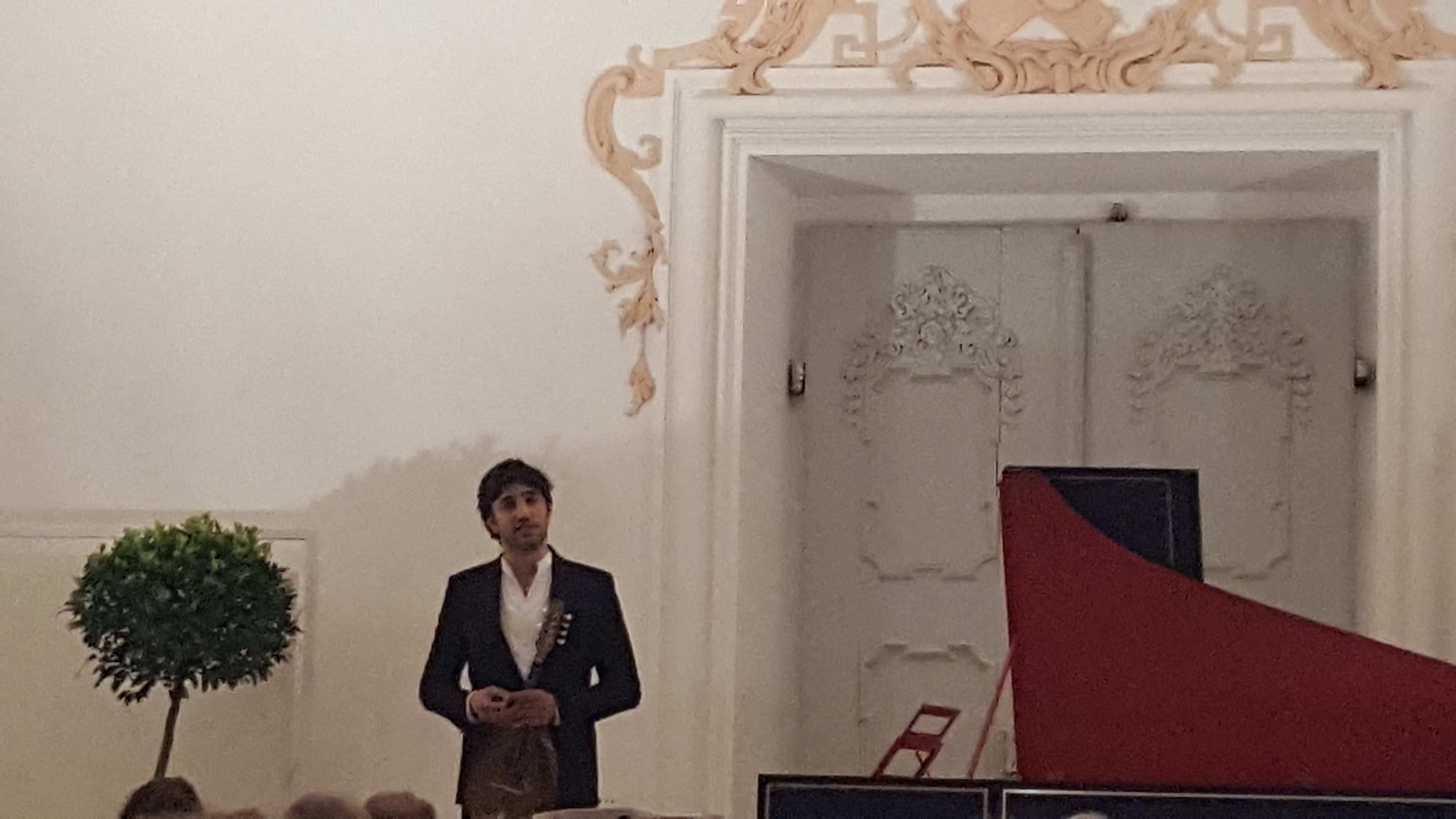 Avi Avital an Israeli mandolinist, composer, and performer in St. Florian Monastery